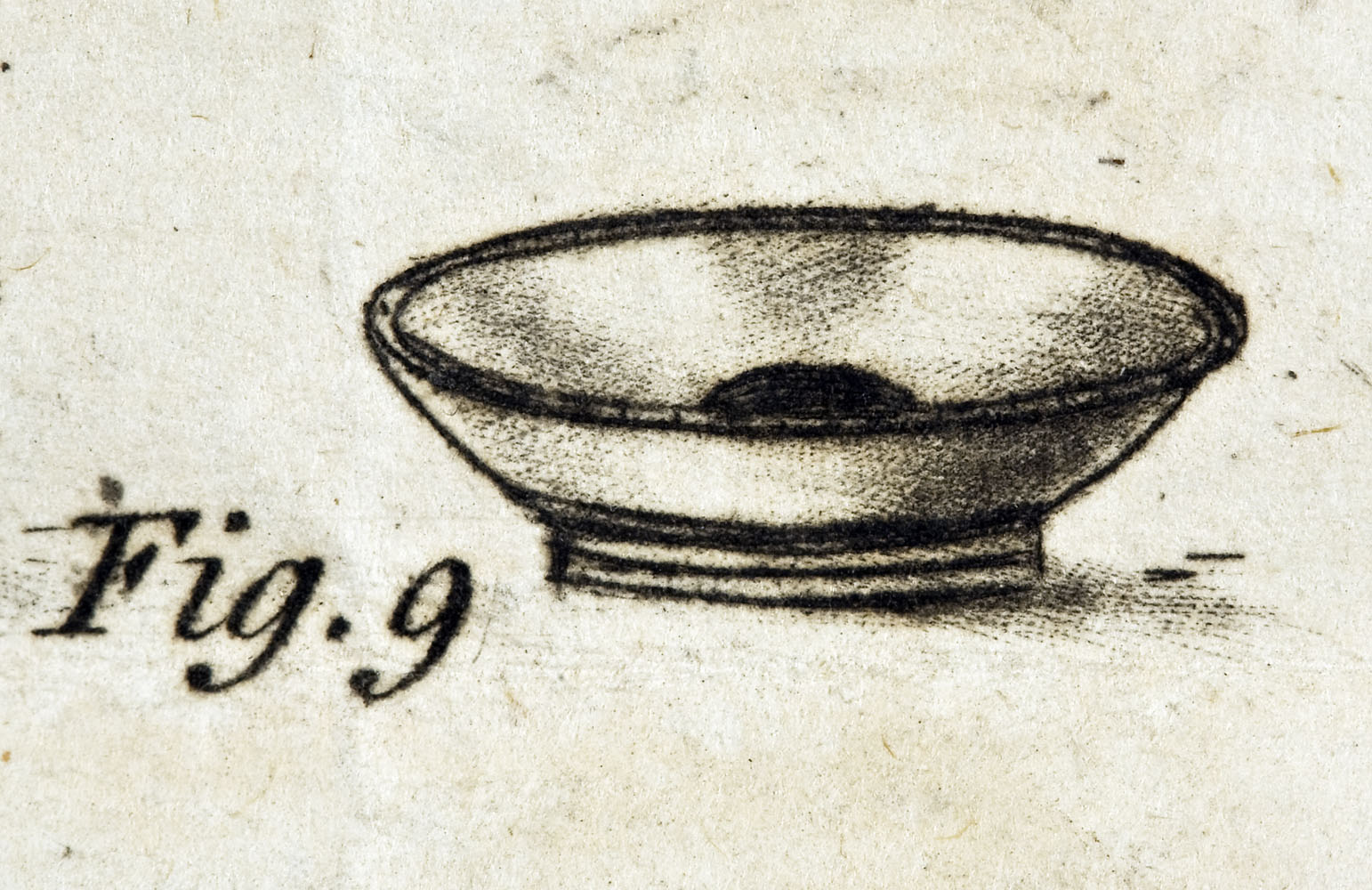 Lieberkühn mirror